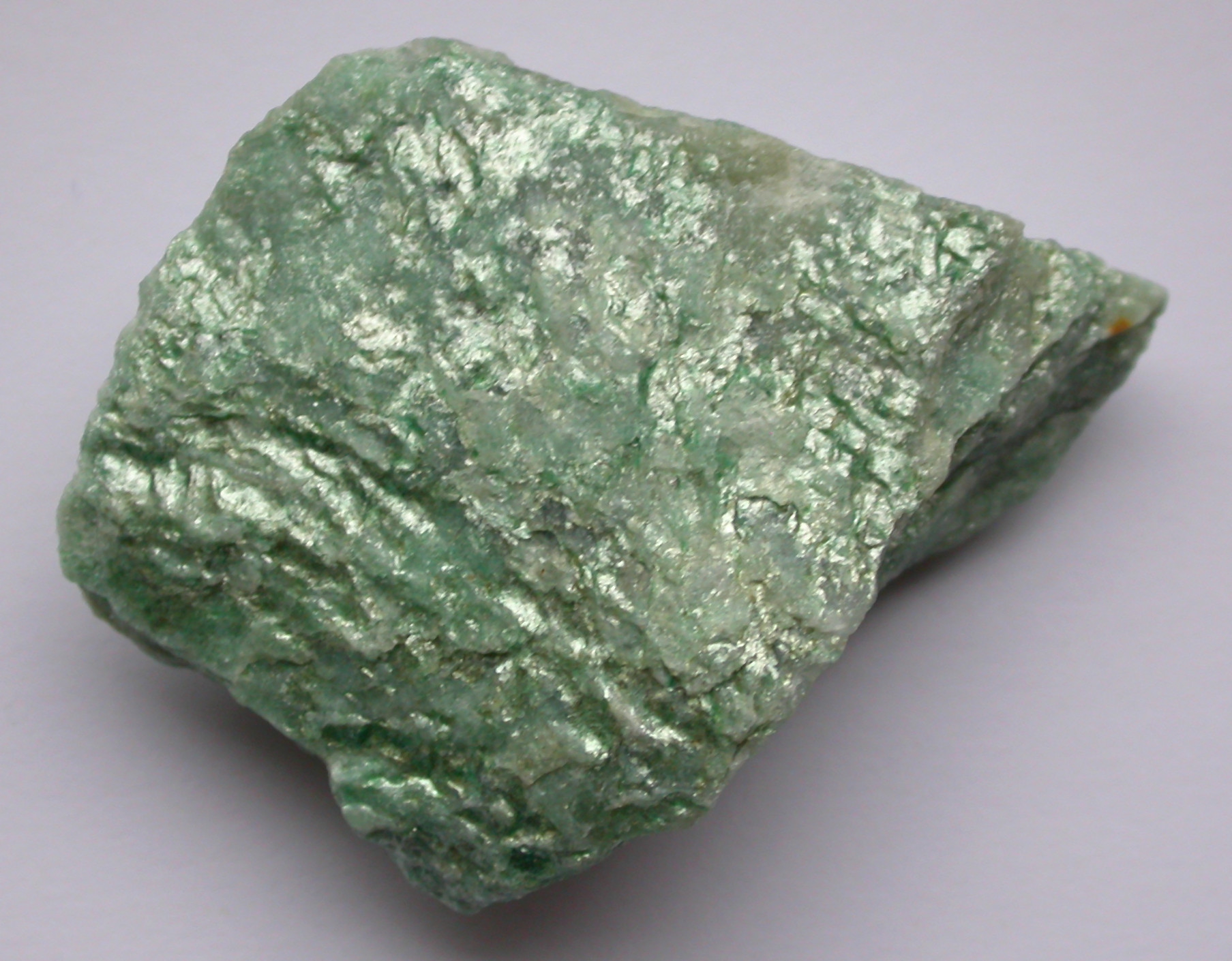 Fuchsite, Variety of Muscovite